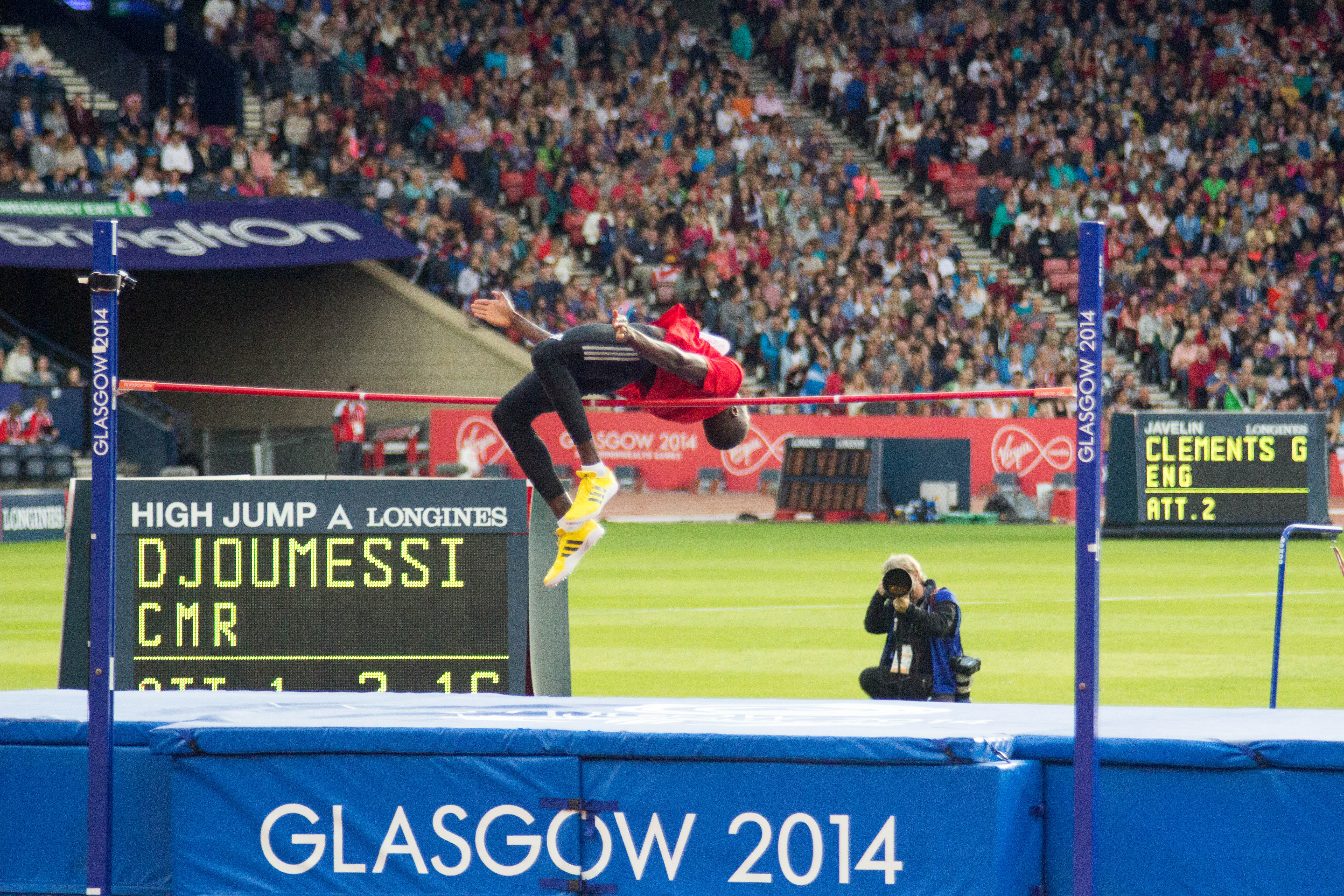 Commonwealth Games 2014 - Athletics Day 4 2014 Commonwealth Games Day 4: Athletics